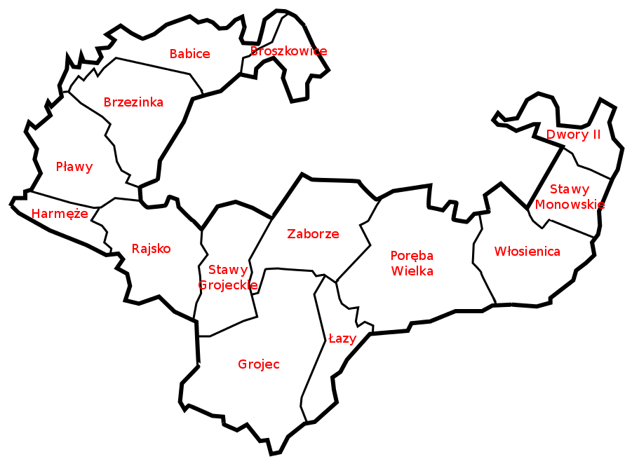 Villages in Gmina Oświęcim, borders after [1]